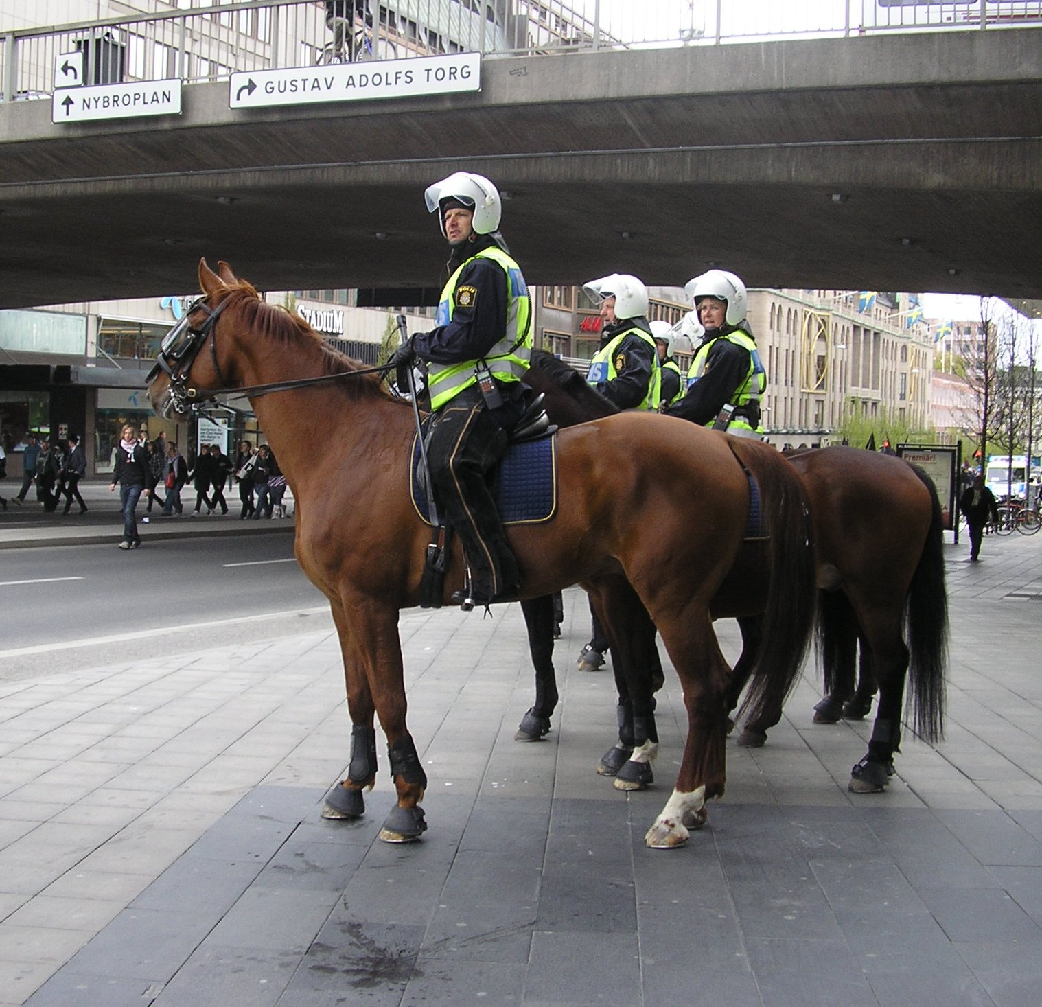 Swedish mounted police in central Stockholm, near Sergelstorg.